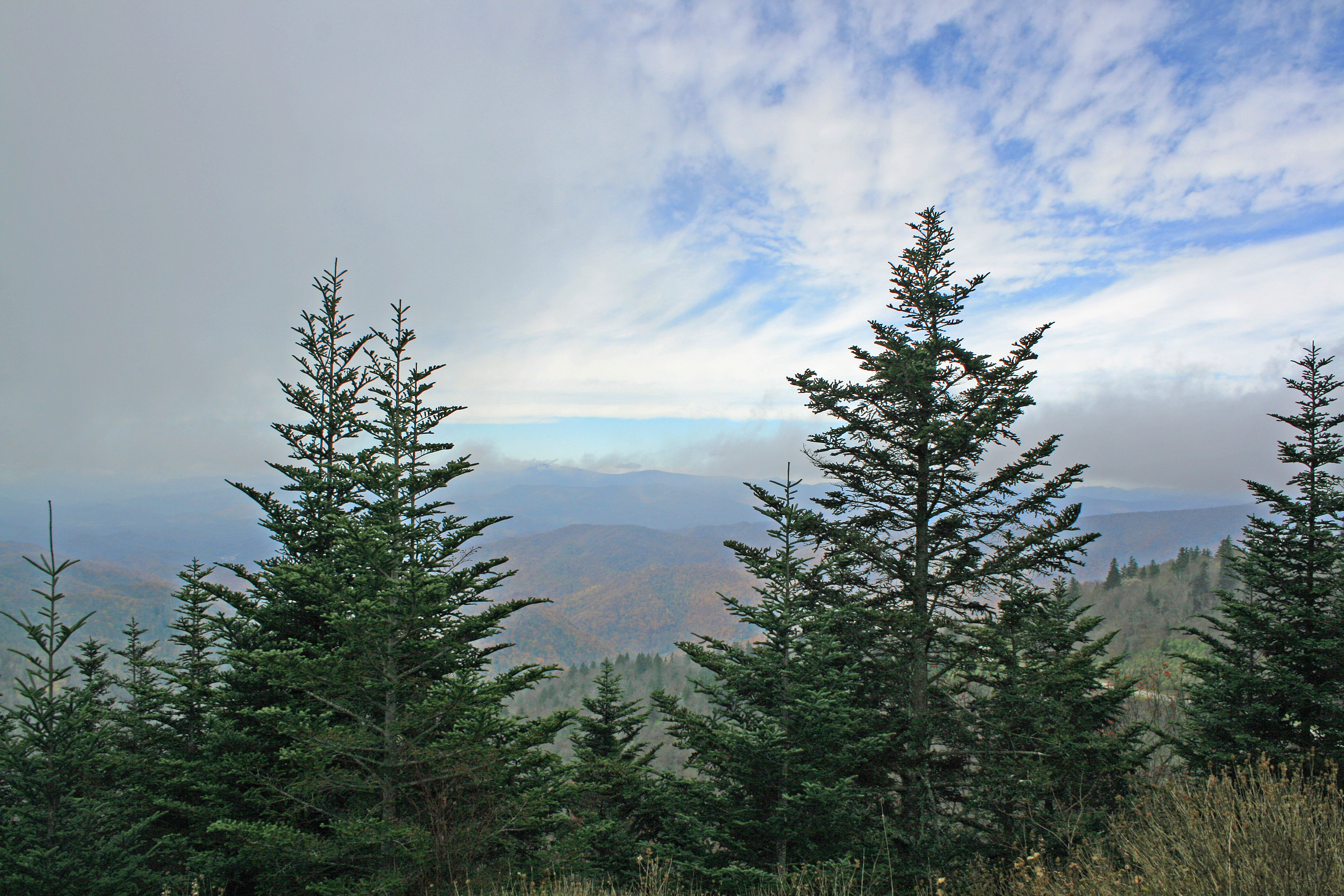 Abies fraseri, Blue Ridge Parkway, near Cherokee, NC. 35°21'26"N 82°59'09"W, 1815 m altitude.